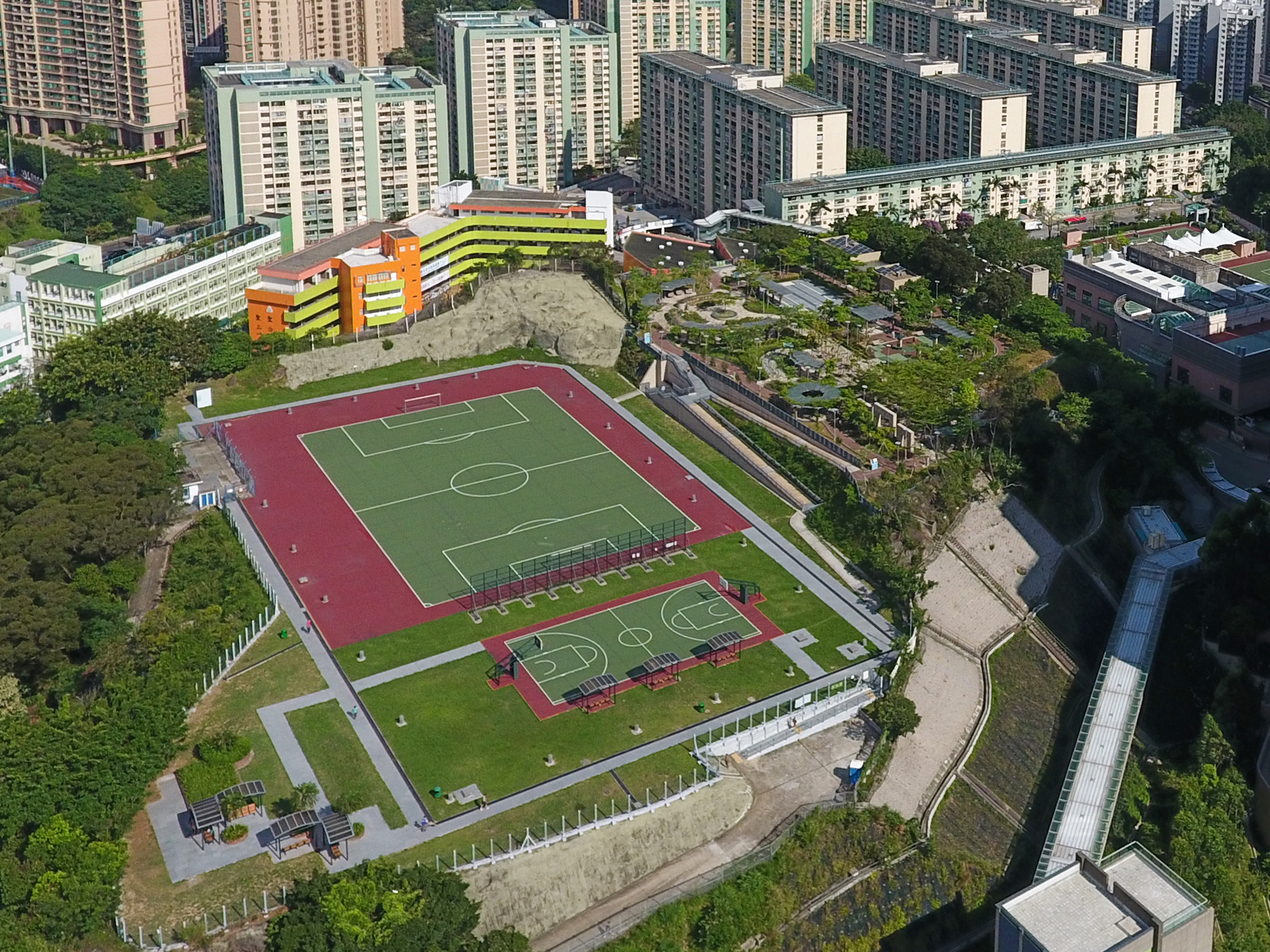 Chung Yee Street Garden and King's Park High Level Service Reservoir Playground